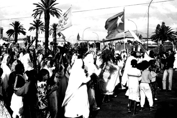 An election official in Dembi Dolo, in Welega, explains procedures as voters register for district and regional elections, June, 1992